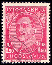 Postage stamp of Yugoslavia, king Alexander I Karageorge, 1.50 dinara, 1931.